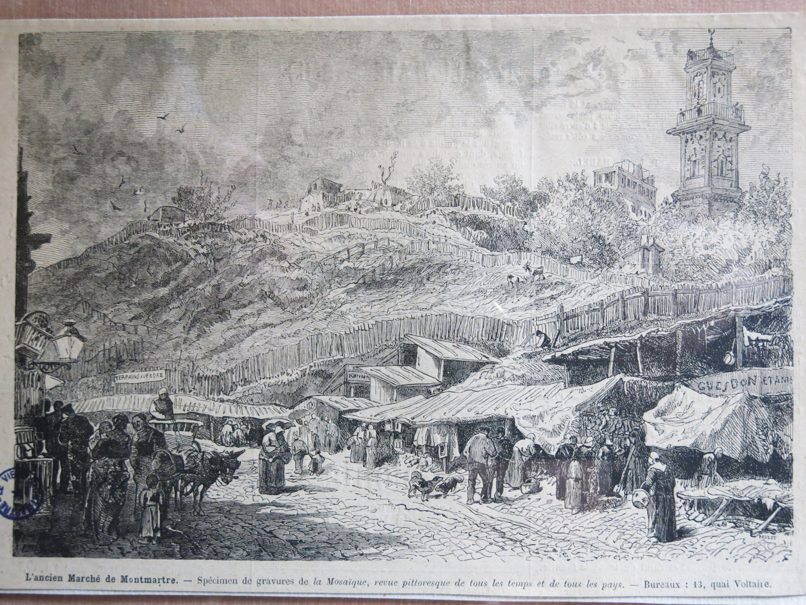 Solferino tower in Montmartre with the old market (Paris 18th arrond., France). Engravins preserved in Montmartre museum.